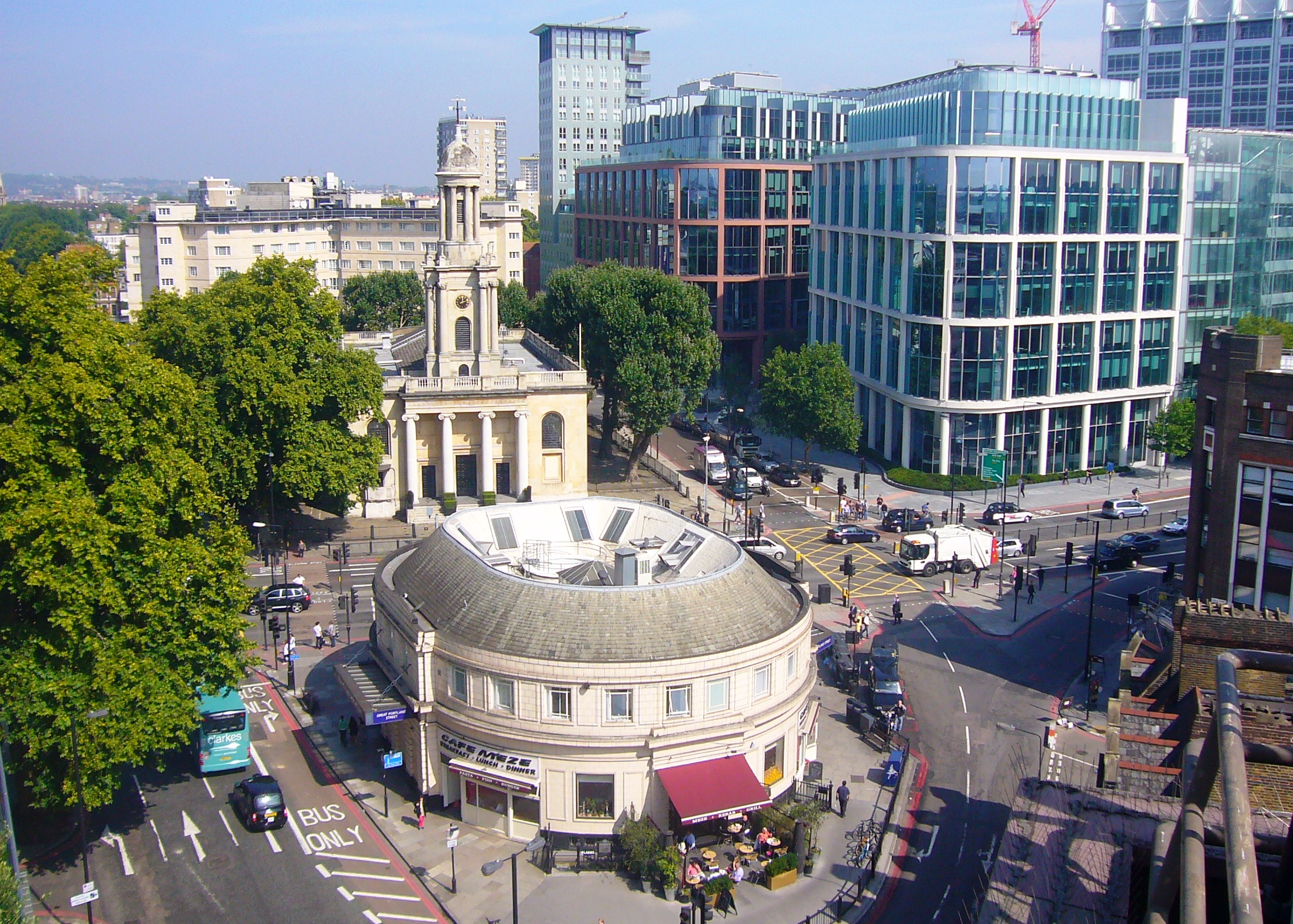 View of Great Portland Street Underground Station seen from high level on Great Portland Street. The context of station is seen clearly showing the newly build office buildings of Regents Place and Holy Trinity Church in the background. It is also here that the Marylebone Road and Euston Road run into each other.